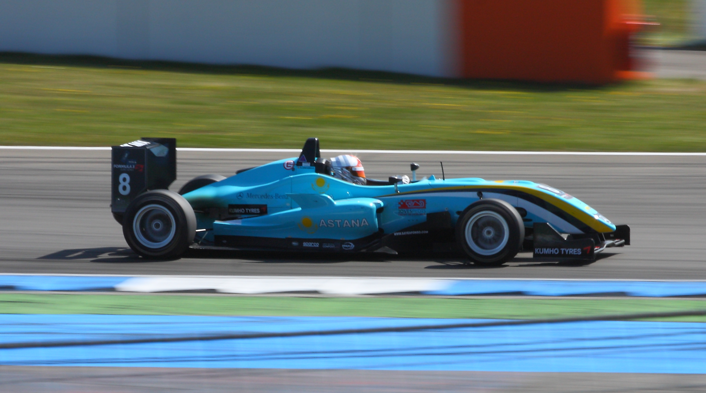 Formula 3 Euroseries, Hockenheimring; Daniel Juncadella